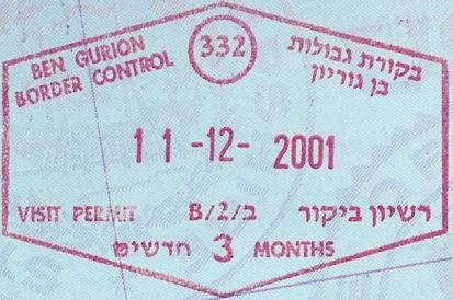 An Israeli B2 entry stamp in a US passport granting the holder three months stay in Israel.